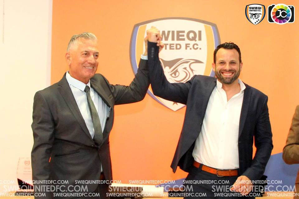 Between 2015-2018, Coaches Billy Mock and Rodney Bugeja oversaw a period of huge success for the club.